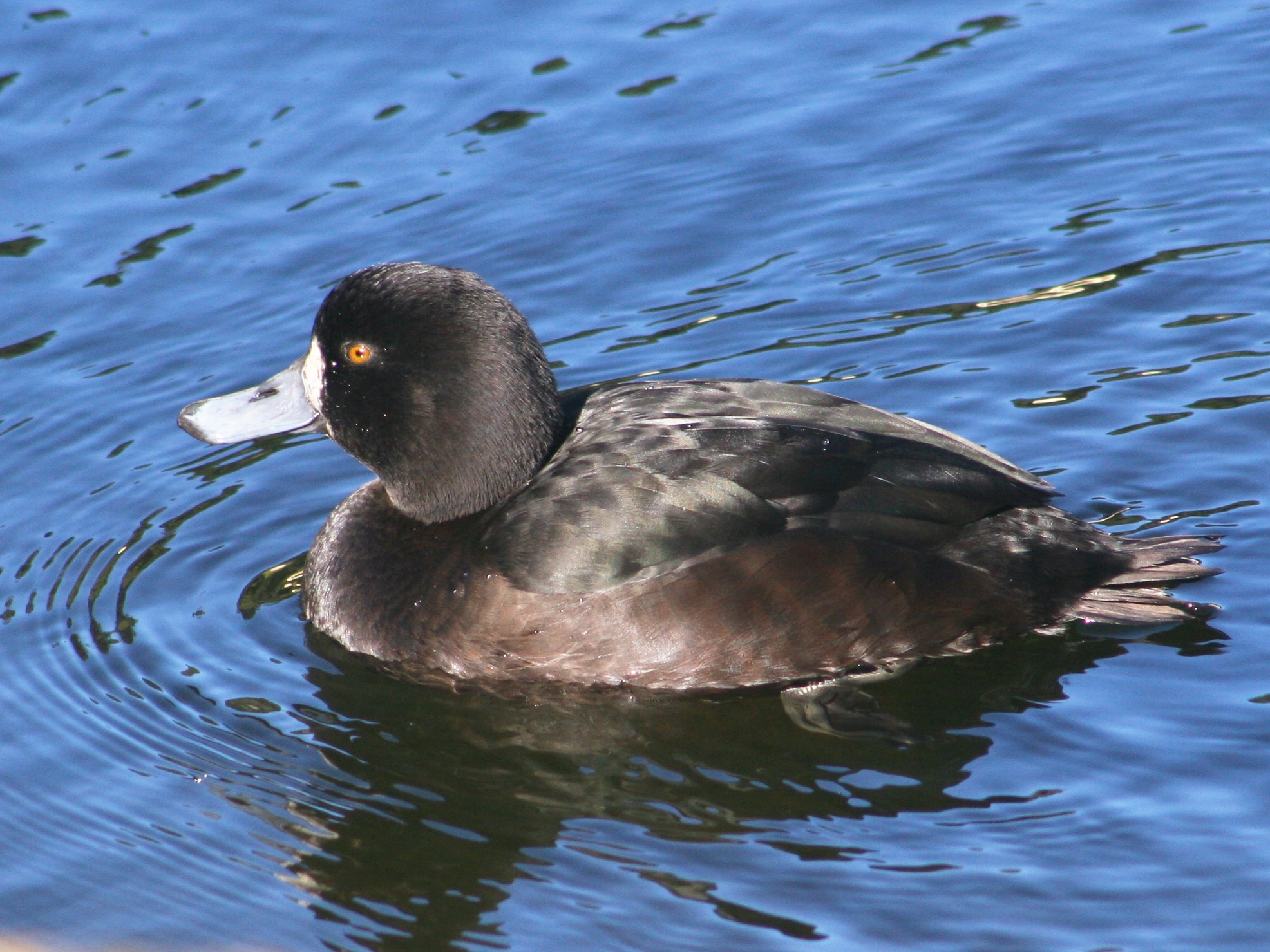 New Zealand Scaup, female (showing white face patch - breeding plumage). Karori Wildlife Sanctuary, Wellington, New Zealand. Māori: Papango